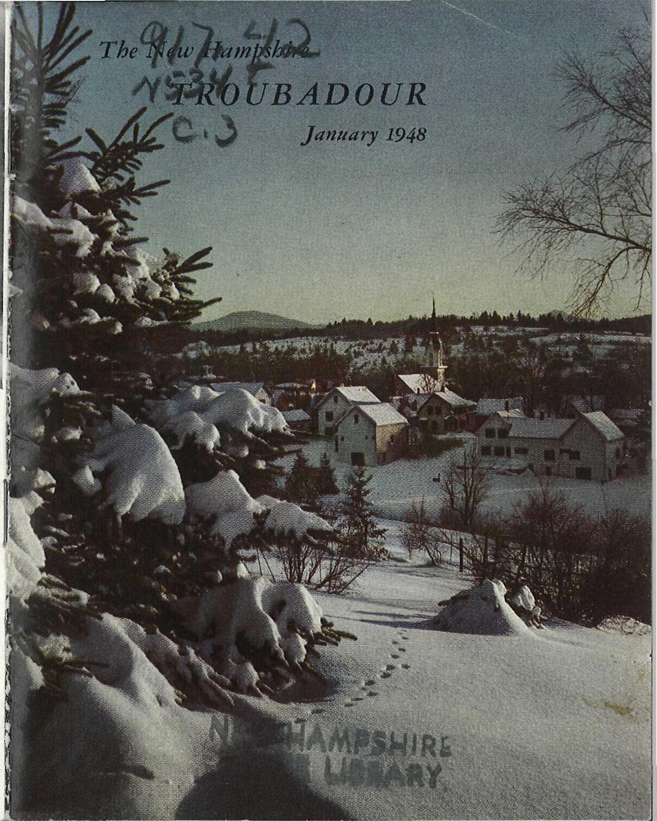 Cover image of New Hampshire Troubadour January 1948 issue depicting Whitefield, New Hampshire. This is a state government tourism publication that was not registered for copyright.